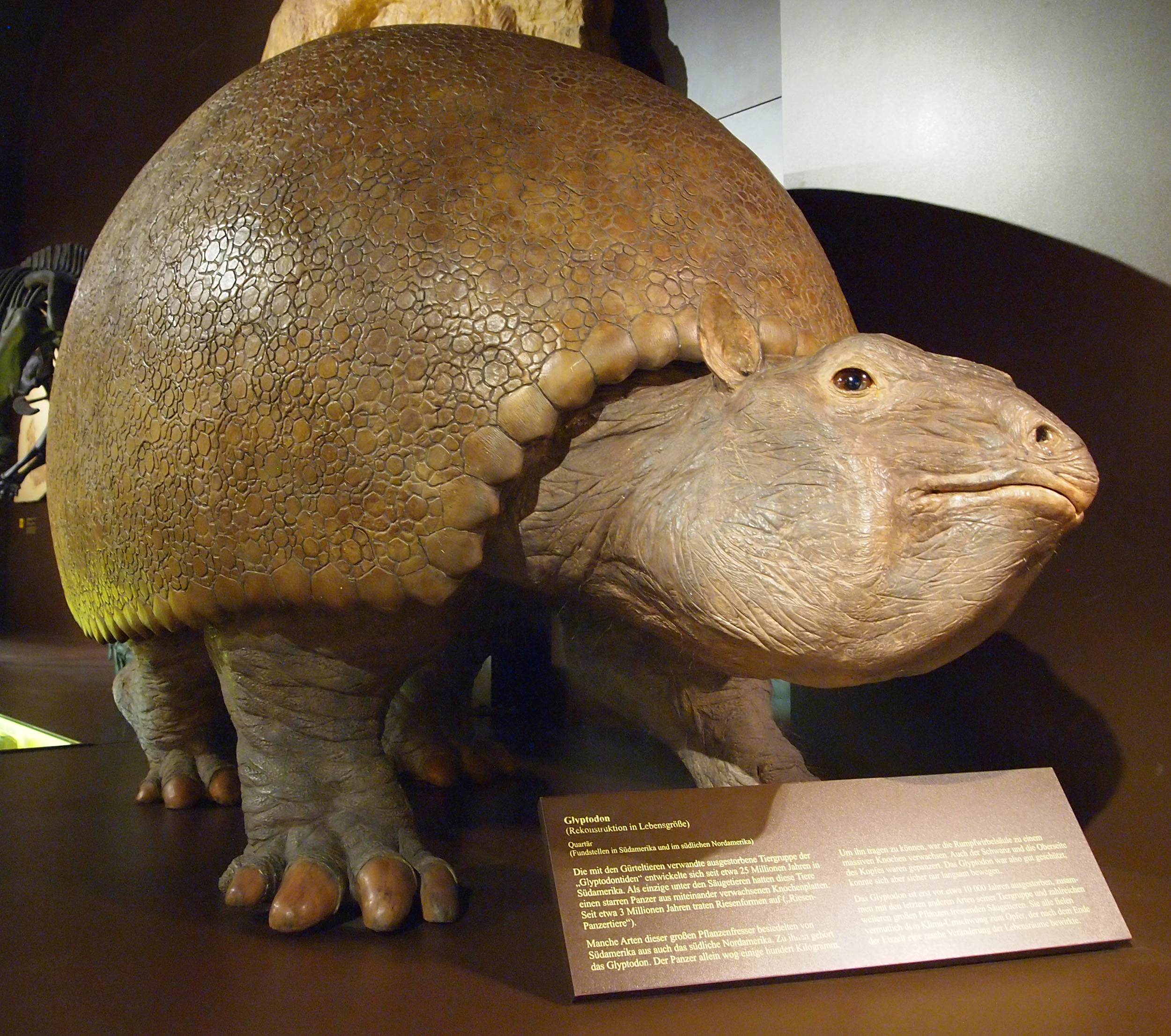 Glyptodon, Museum Mensch und Natur. This photograph was taken with an Olympus E-PL1